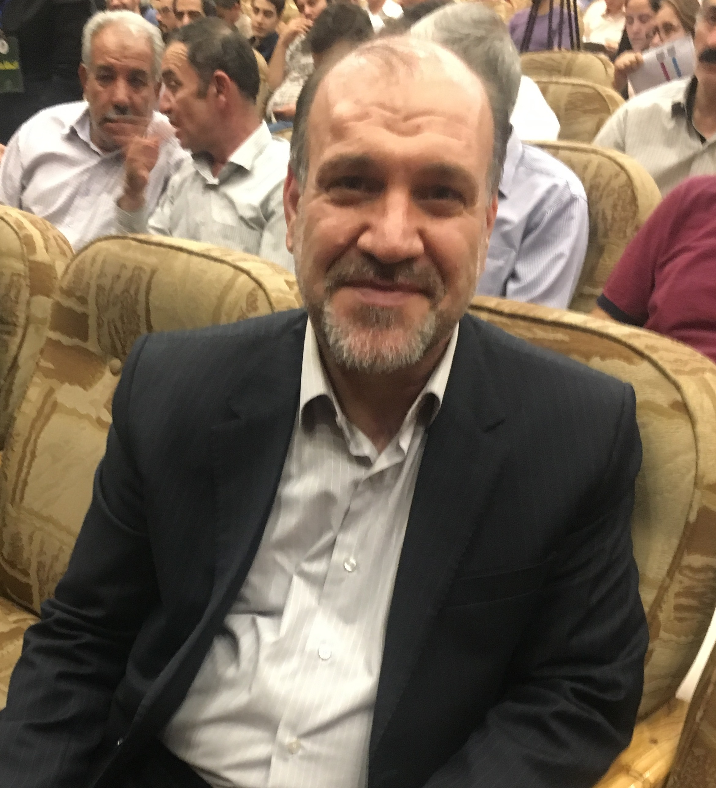 Fereydoon Ahmadi Representative of Majlis of Islamic Republic of Iran from Zanjan during meeting about bill of rights in Zanjan, Iran